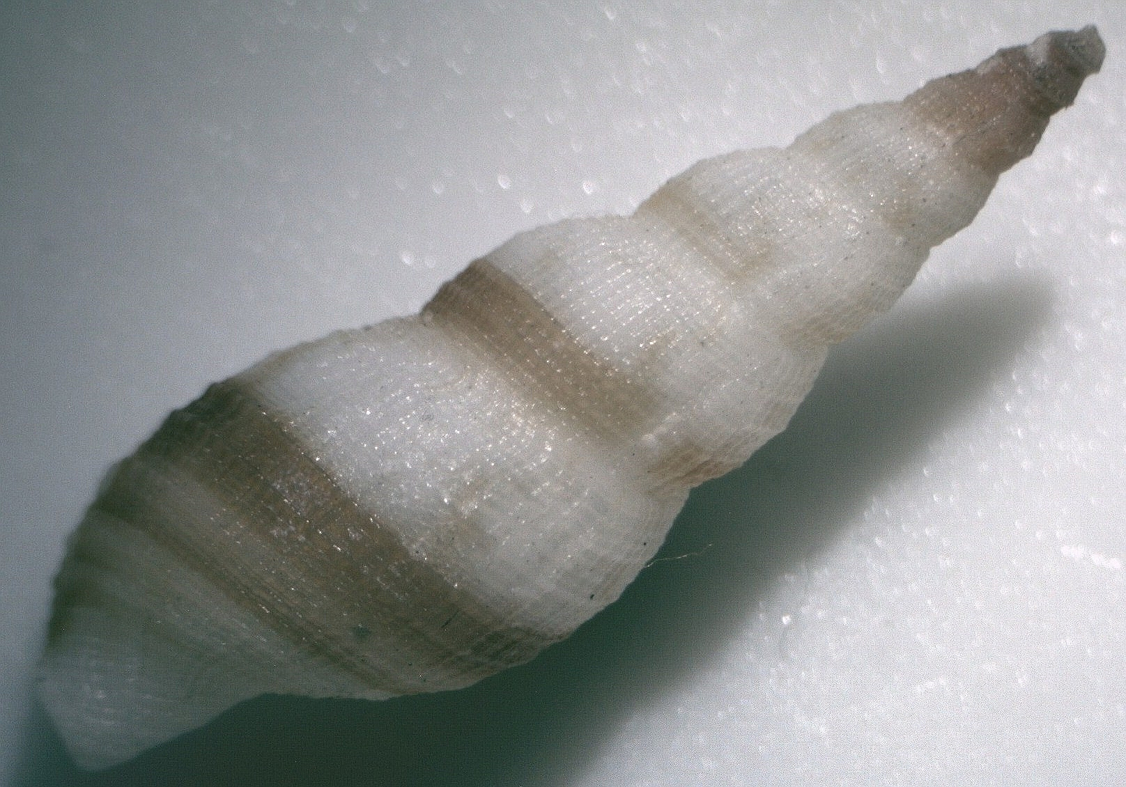 Daphnella aureola (L. A. Reeve, 1845), a cone snail in the family Conidae; Philippines